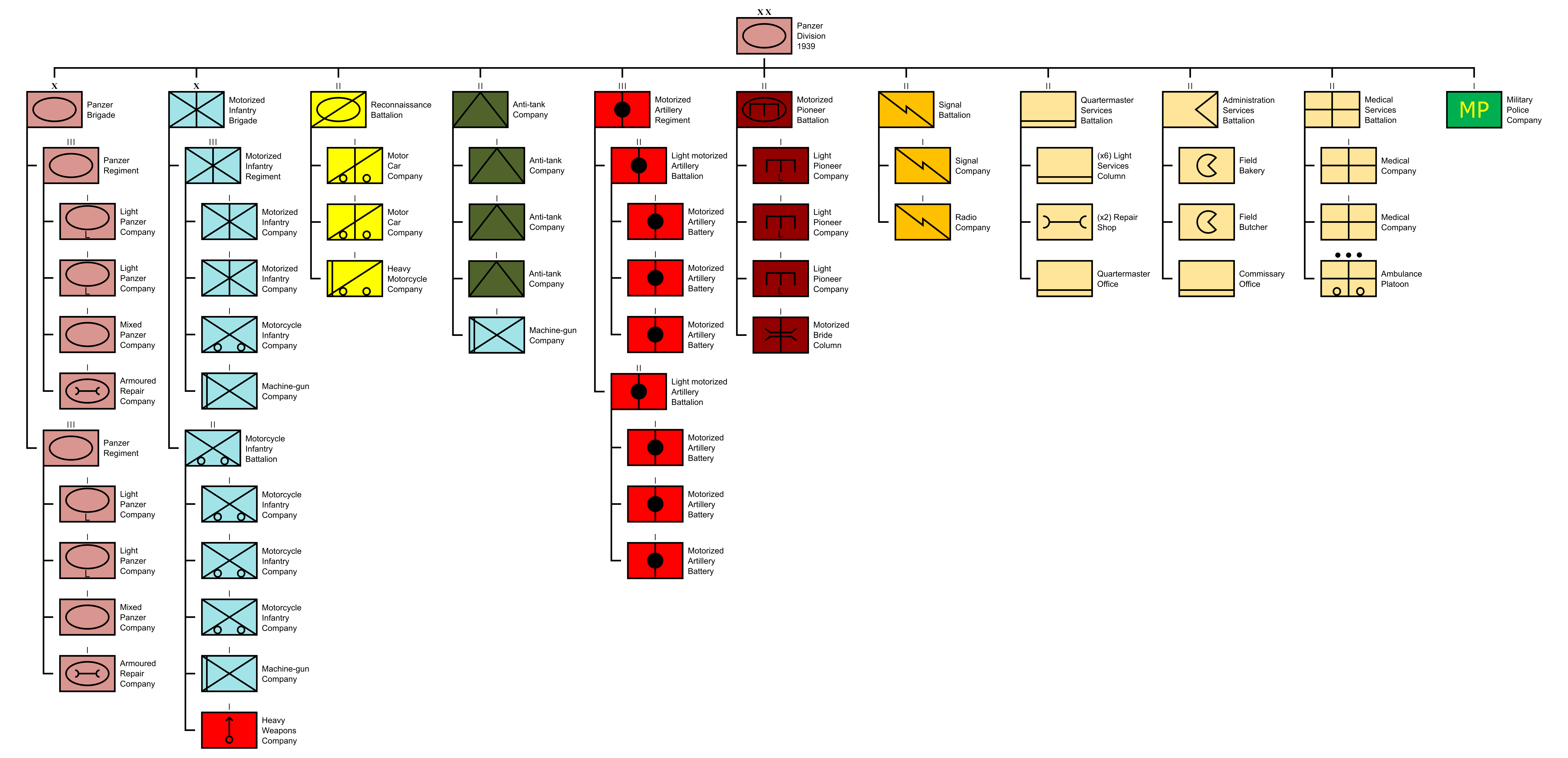 Order of battle graphic showing organization of a German Panzer division in 1939